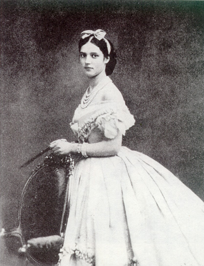 Dagmar of Denmark, the future Empress Maria Fyodorovna of Russia, in 1864.